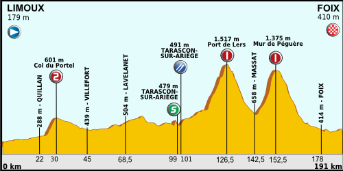 Profil of the 14th stage of the Tour de France 2012